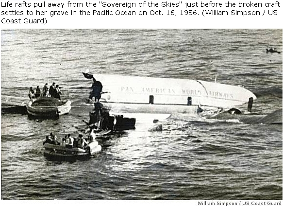 PanAmFlight6-Ditches-5